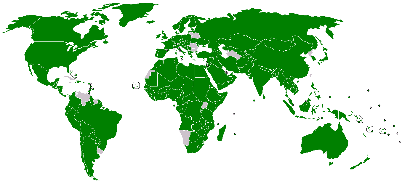 IDA members